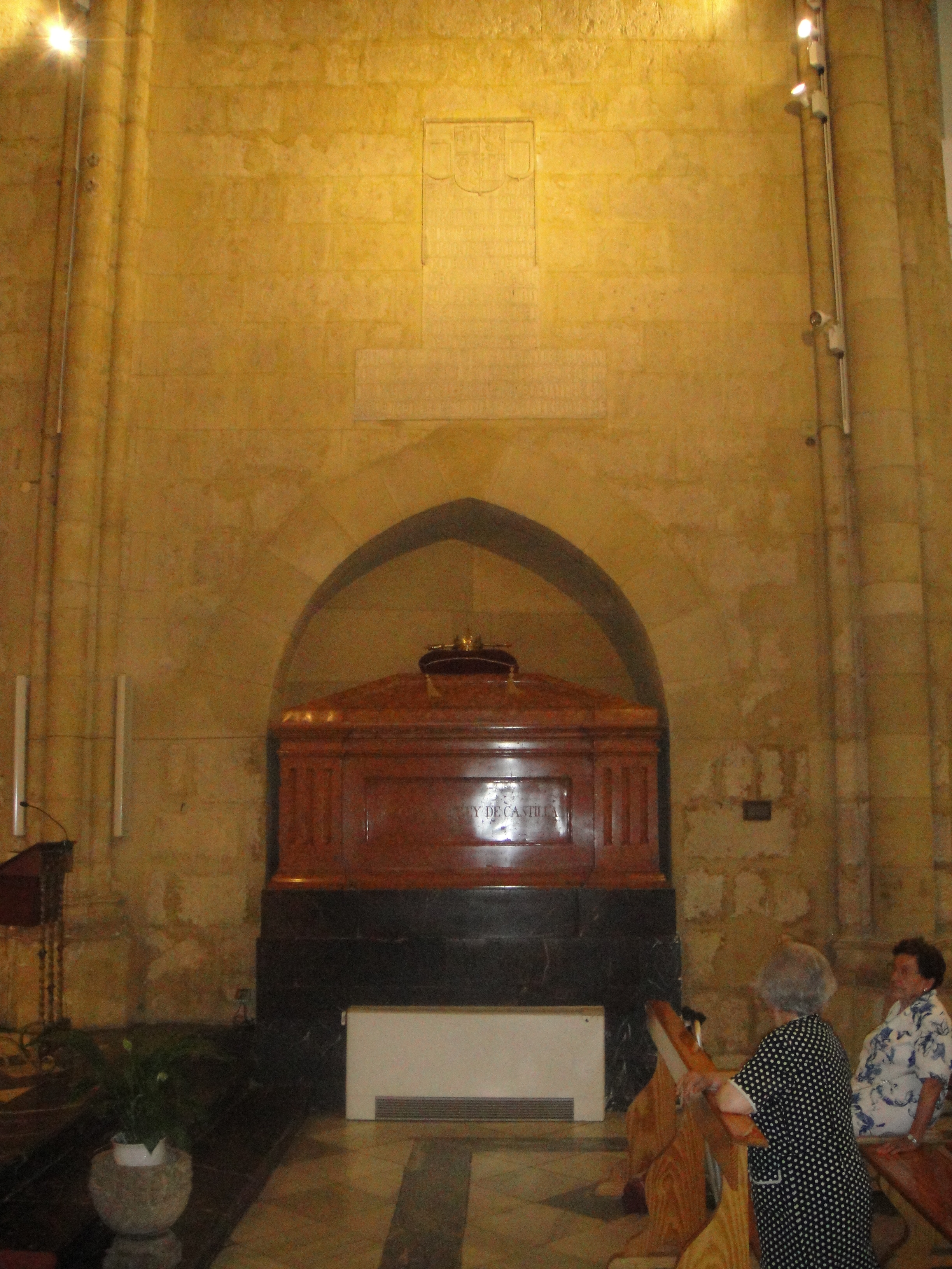 Tomb of the king Alfonso XI of Castile (1311-1350). Church of Saint Hippolytus of Córdoba, (Spain).